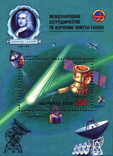 Miniature sheet by the USSR, issued in 1986. Text on the miniature sheet: "International cooperation on the study of Halley's comet." A portrait of Edmond Halley, Halley's Comet, space probes: the Soviet automatic interplanetary station (AIS) Vega 1 with the closest approach to the nucleus of the comet, the Soviet AIS Vega 2, Giotto, the Suisei of the Japanese space agency, Communications, the emblem of the Intercosmos Council. The artist is G.Komlev. Number - 5704 (CPA). Circulation - 900 thousand copies.